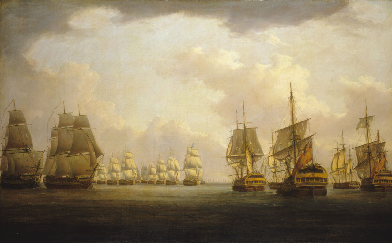 'Admiral Sir Robert Calder's action off Cape Finisterre, 23 July 1805'. Vice-Admiral Calder’s squadron intercepted the Franco-Spanish fleet under Admiral Villeneuve off north-western Spain, as it returned from its diversionary voyage to the West Indies just before Trafalgar. At a time when Britain had become used to Nelsonic victories, Calder’s failure to engage it decisively led to his formal censure and he was never given another command. This shows the day after the action, 24 July. British frigates have Calder’s two prizes, the Firme and the San Raphael, under tow on the right and the damaged Windsor Castle, too, on the left. Calder’s fleet is in formation in the centre and the departing enemy in the distance[1] ↑ National Maritime Museum